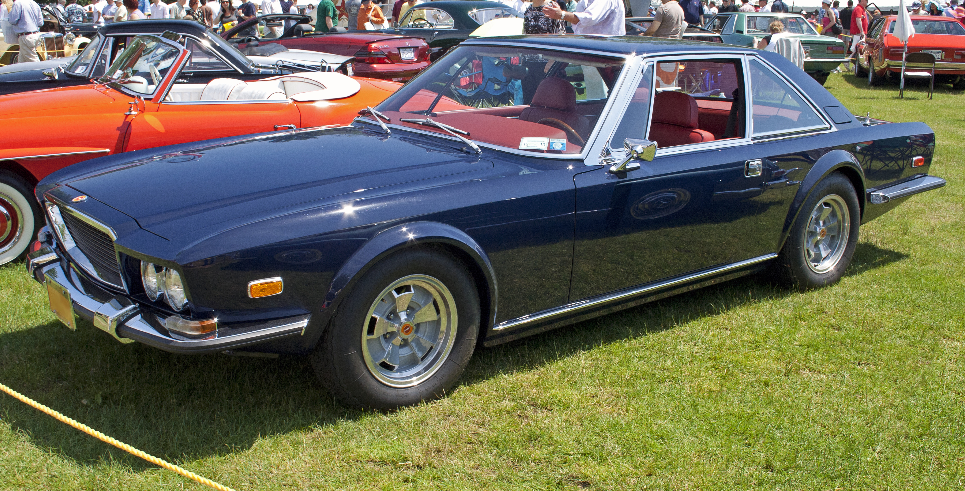 1973 Momo Mirage 2+2 at the 2012 Greenwich Concours d'Elegance. This is one of three which belong to the businessman behind the project, Peter S. Kalikow - out of six built, one was never finished and another one burnt to the ground.